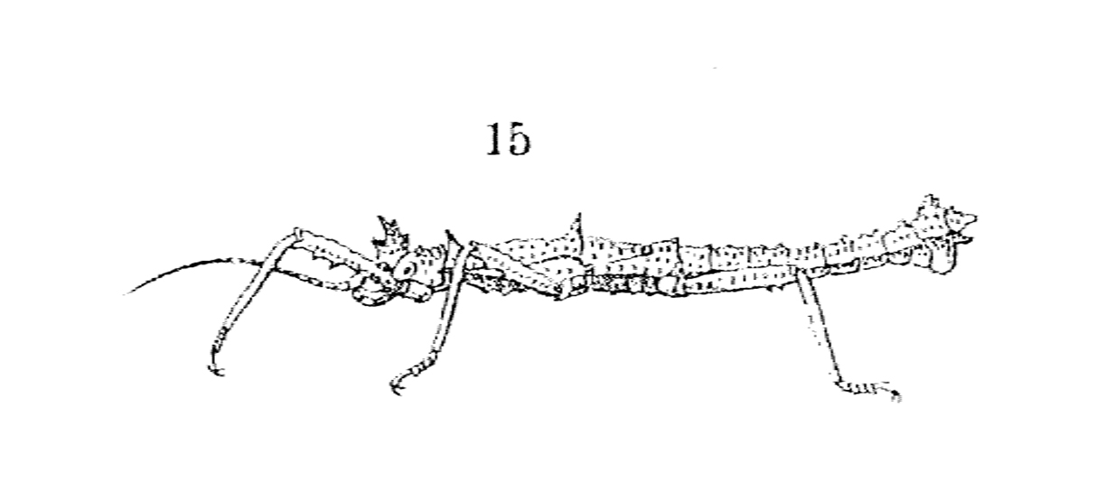 Picture of a male of Datames oileus from Redtenbacher 1906 (valid name: Pylaemenes oileus)